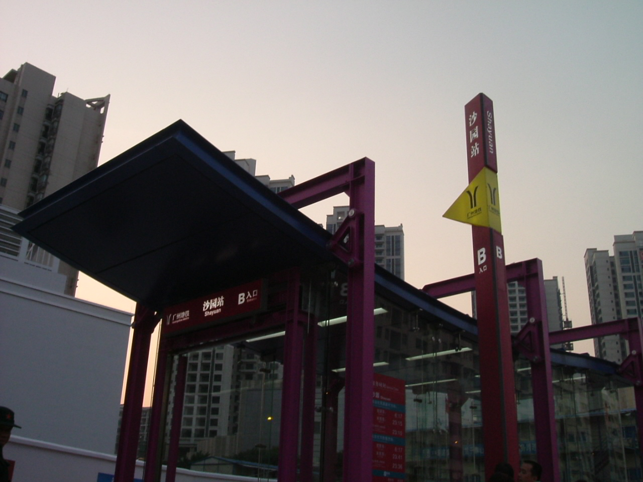 Shayuan Staton B Exit